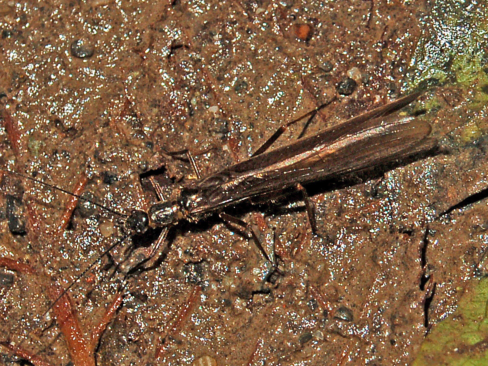 Plecoptera - Leuctridae species. Val Noci, Genova